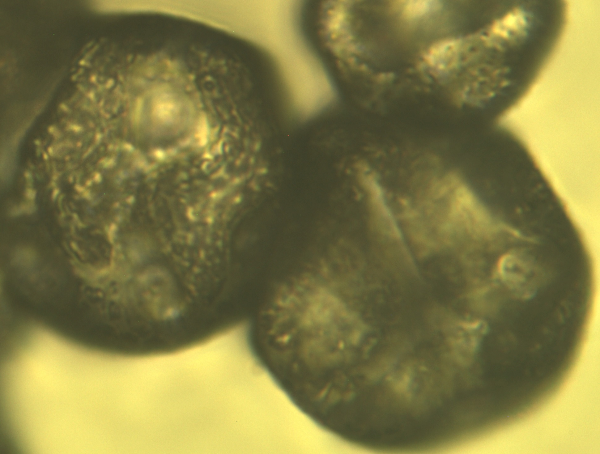 Dianthus carthusianorum Pollen 400x